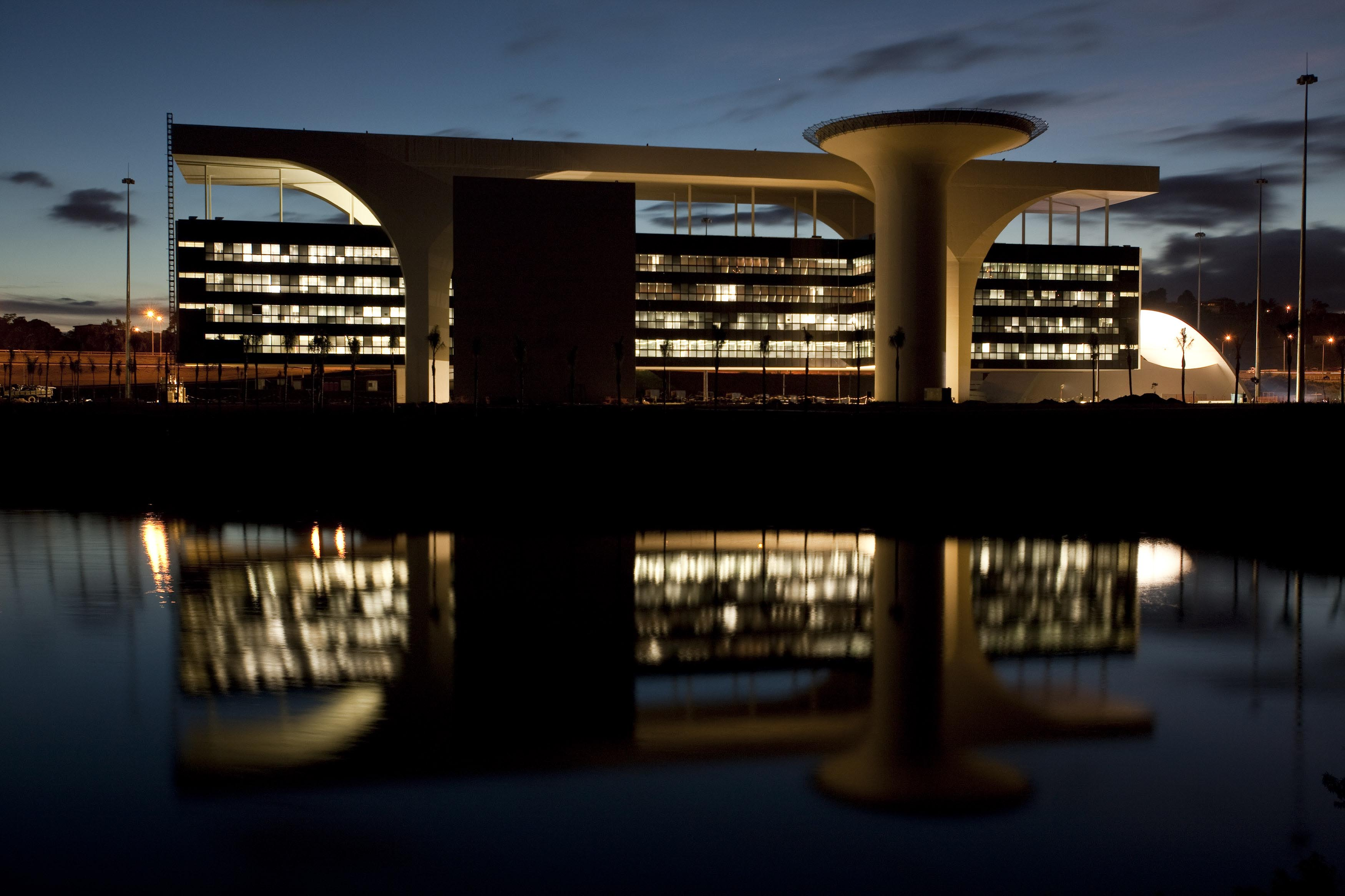 Foto da Cidade Administrativa